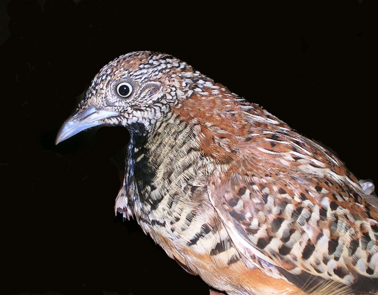 Turnix suscitator taigoor. From Hessarghatta, Bangalore, India